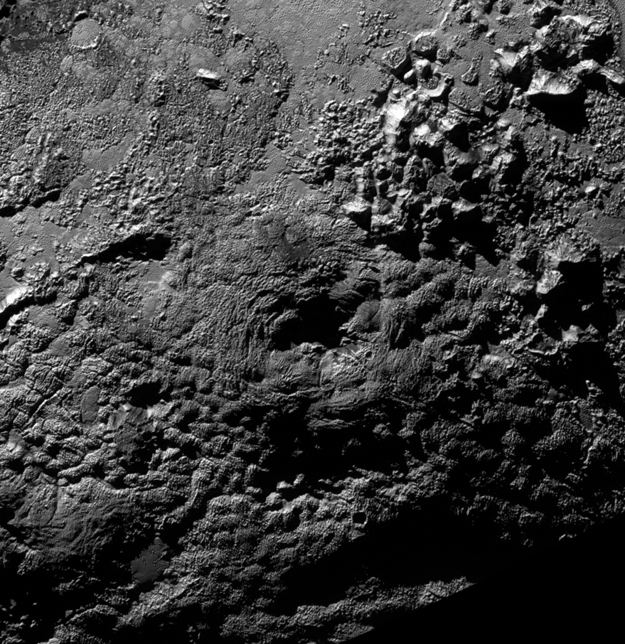 The informally named feature Wright Mons, located south of Sputnik Planum on Pluto, is an unusual feature that's about 100 miles (160 kilometers) wide and 13,000 feet (4 kilometers) high. It displays a summit depression (visible in the center of the image) that's approximately 35 miles (56 kilometers) across, with a distinctive hummocky texture on its sides. The rim of the summit depression also shows concentric fracturing. New Horizons scientists believe that this mountain and another, Piccard Mons, could have been formed by the 'cryovolcanic' eruption of ices from beneath Pluto's surface.